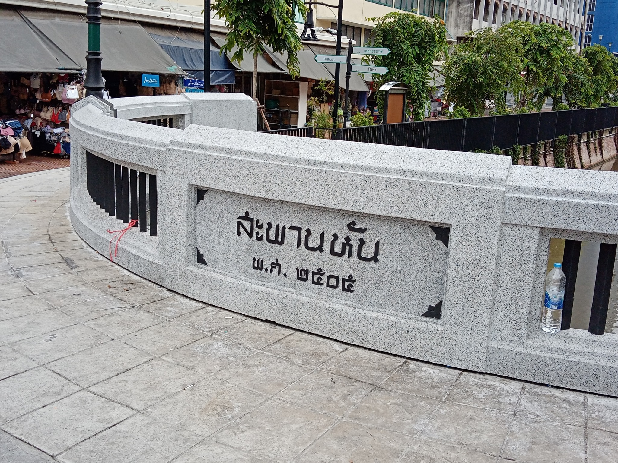 Saphan Han